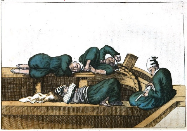 Greek tartane.